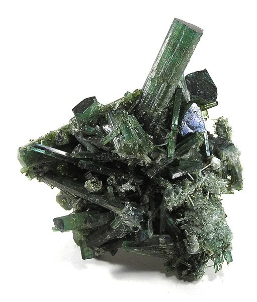 Elbaite, Tourmaline Locality: Minas Gerais, Southeast Region, Brazil (Locality at ) A large, intricate cluster of untold numbers of tourmaline crystals, from the nearly invisible to 4 cm! In fact, the cluster is a floater, cemented together by thousands of micro-crystals, so nearly all the crystals are terminated, all the way around this specimen! and all tourmaline!! this is much better, and more green, in person. There is no attachment area with unterminated crystals. ex Ed Ruggiero collection, purchased in the 70's. It IS a remarkable piece for the overall aspect of it, and the sheer amount of tourmaline in one bundle! 9.9 x 6.5 x 6.0cm